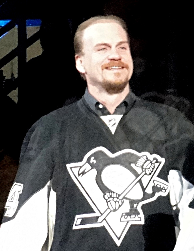 Rob Brown, former player for the Pittsburgh Penguins, returned to Pittsburgh to participate in the pregame ceremony honoring the final regular season game to be played at Civic Arena (Mellon Arena). April 8, 2010.